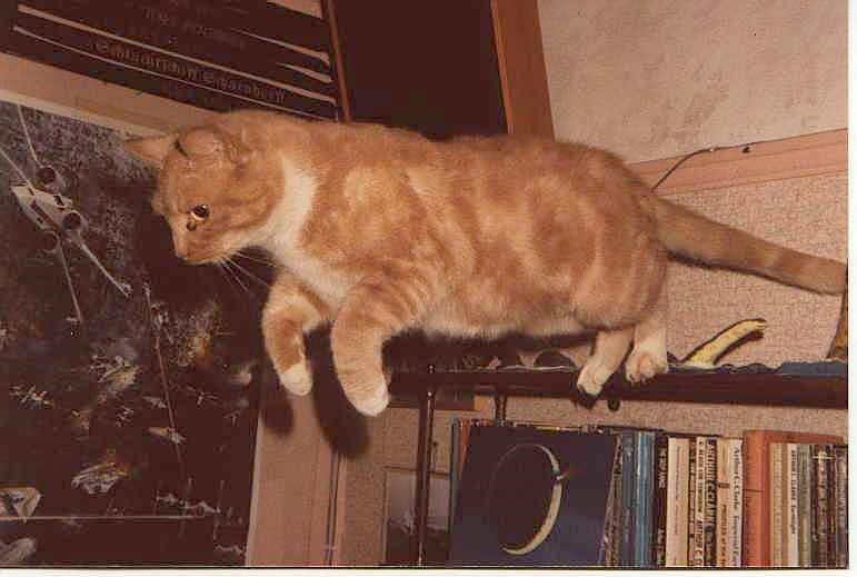 I placed this cat upon the top shelf of my bookcase . And prepared for this picture. The cat landed safely on my bed a few feet benind me!